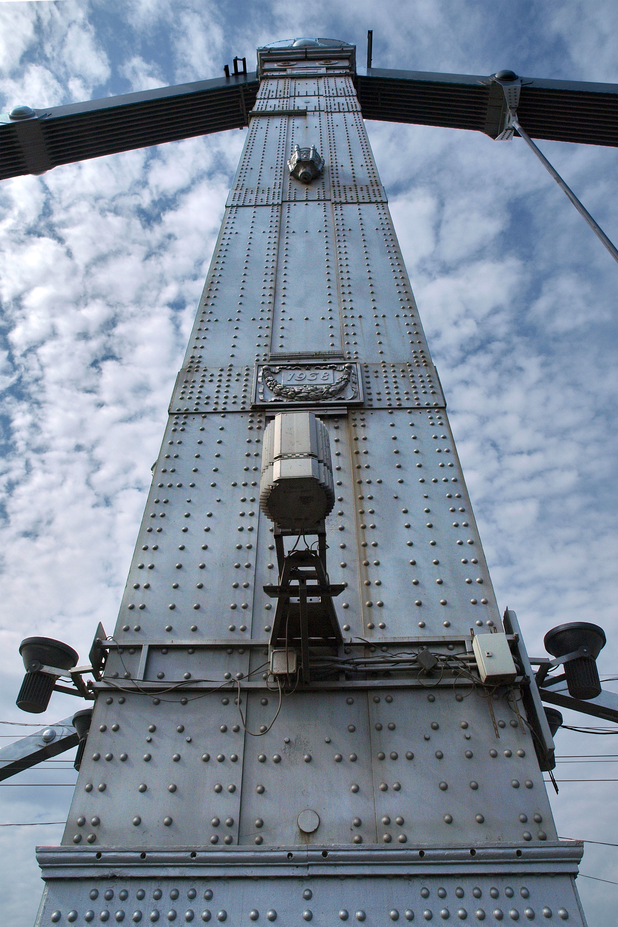 Pylon of Krymsky Bridge, Moscow